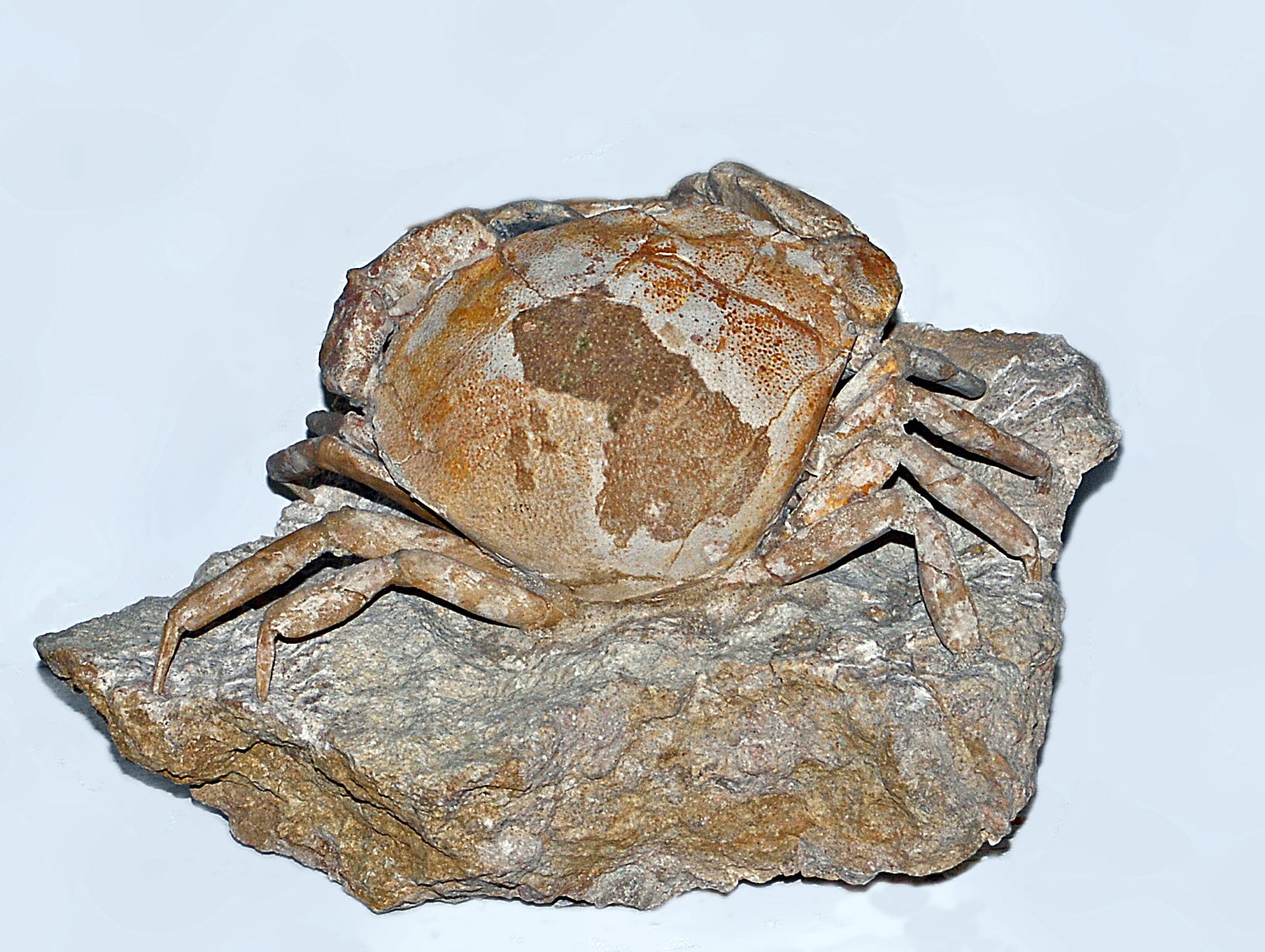 Harpactocarcinus punctulatus from Eocene of Spain